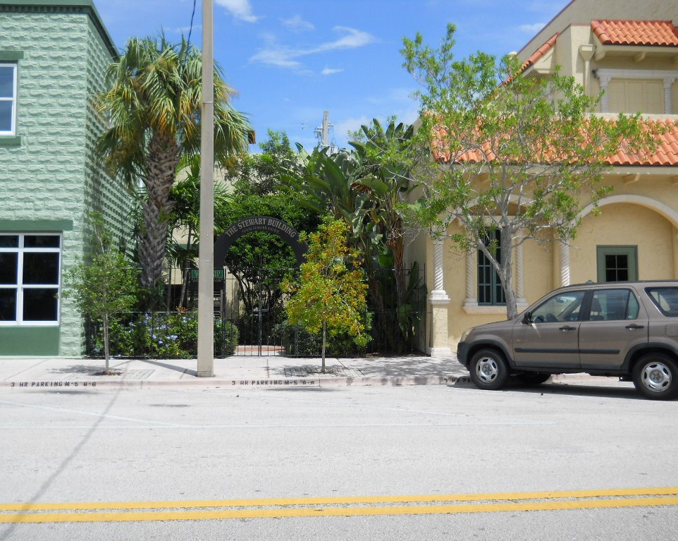 Entrance to the Stewart Building (originally the Feroe Building on the left}. On the right are the additions to the Lyric Theatre. In the rear is the south wall of the rebuild Fellowship Hall